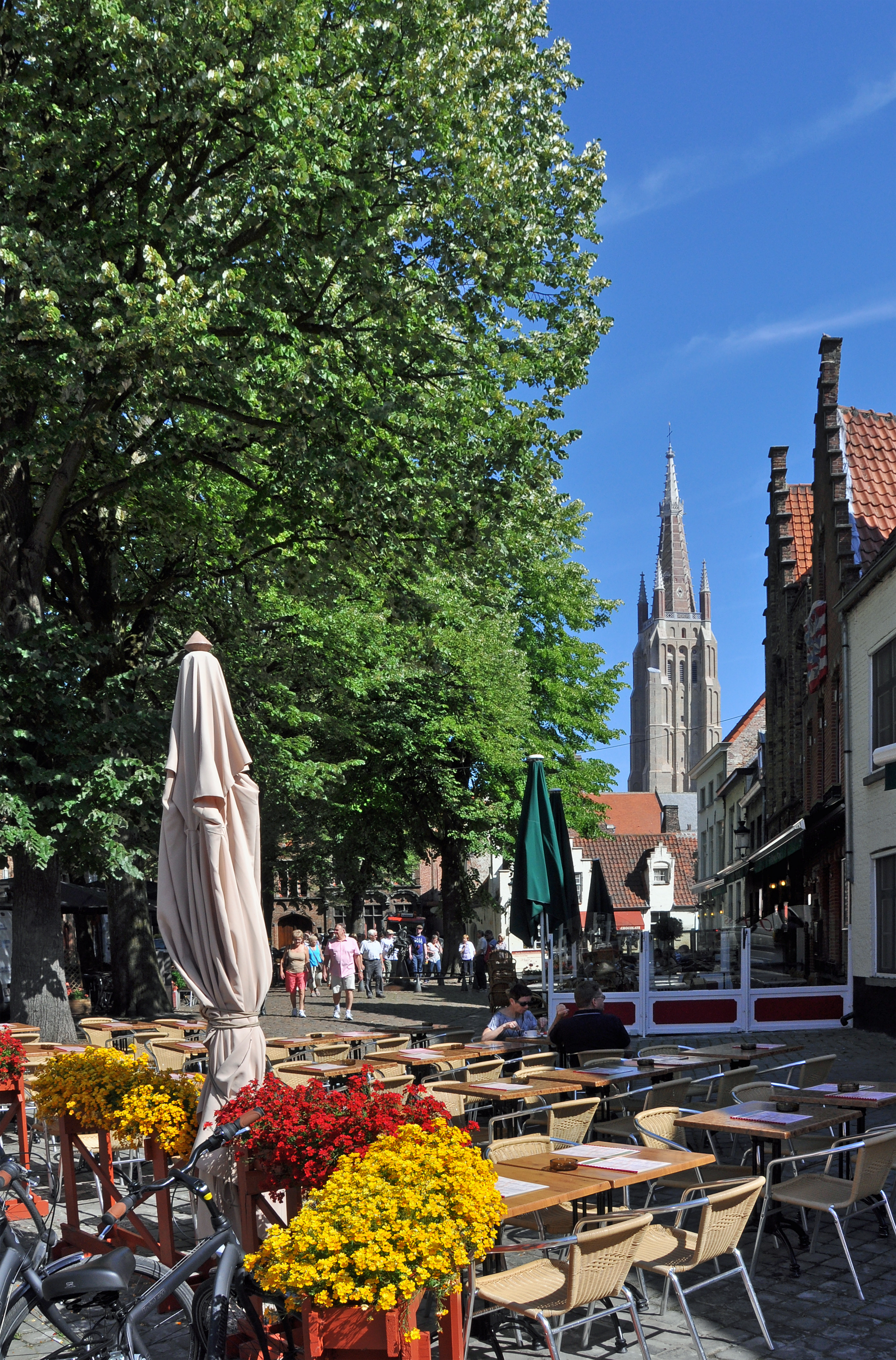 Bruges (Belgium): the Walplein